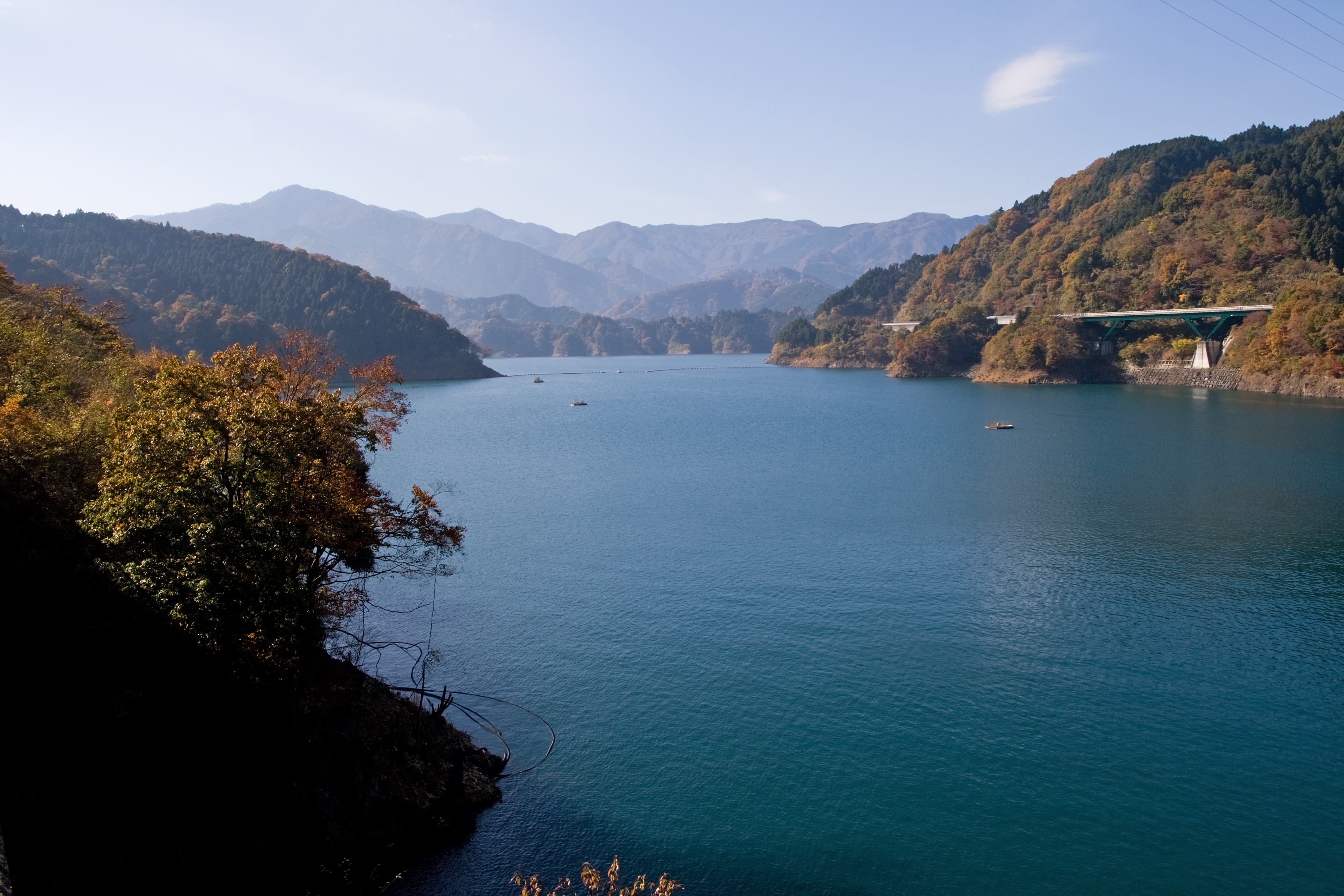 Lake Miyagase (宮ヶ瀬湖 Miyagase-ko), Kanagawa prefecture, Japan.